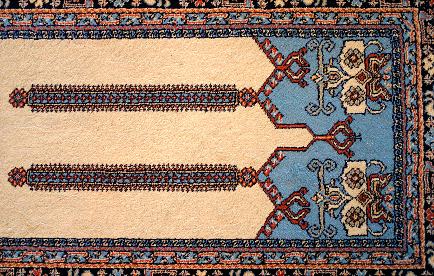 One of the repeating carpet tiles inside the Sultan Ahmed Mosque.